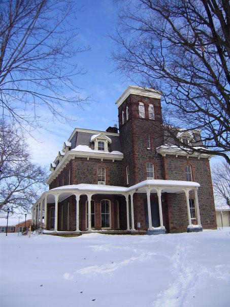 Scott Billigmeier, personal photograph, image of historic but privately owned property SBmeier (talk) 21:08, 31 January 2010 (UTC)SBmeier